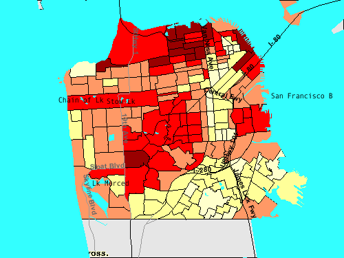 This image is a self-generated thematic map from the U.S. Census Bureau's American Factfinder at by Wikipedia user Stevey7788.